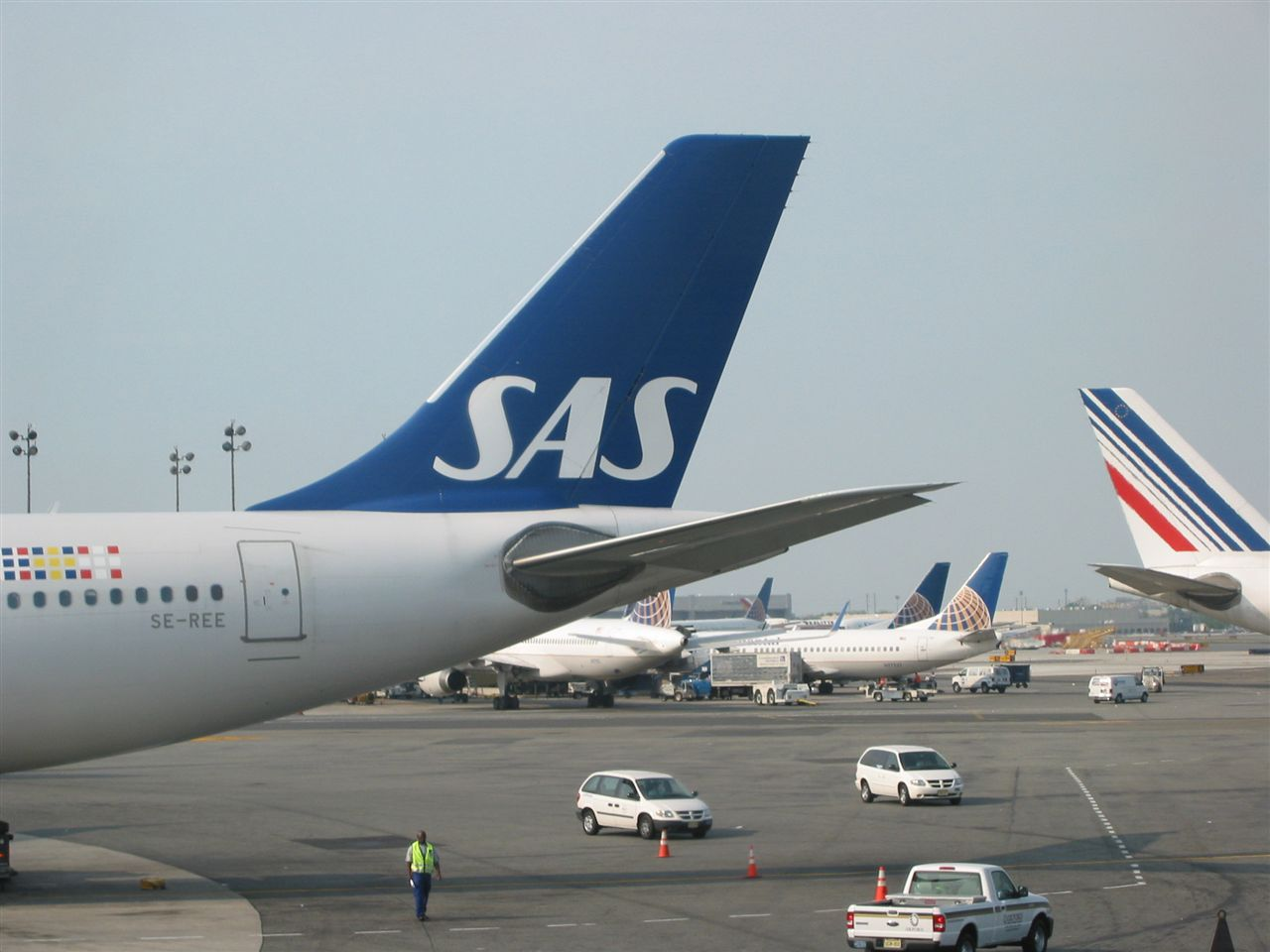 Sas Airbus A330 tail at Newark.